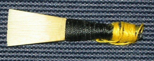 Double reed made of cane